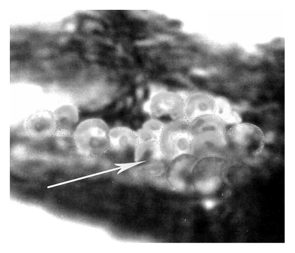 A cluster of amastigotes (arrow) of Paleoleishmania neotropicum in the proboscis of the Dominican amber sand fly Lutzomyia adiketis.